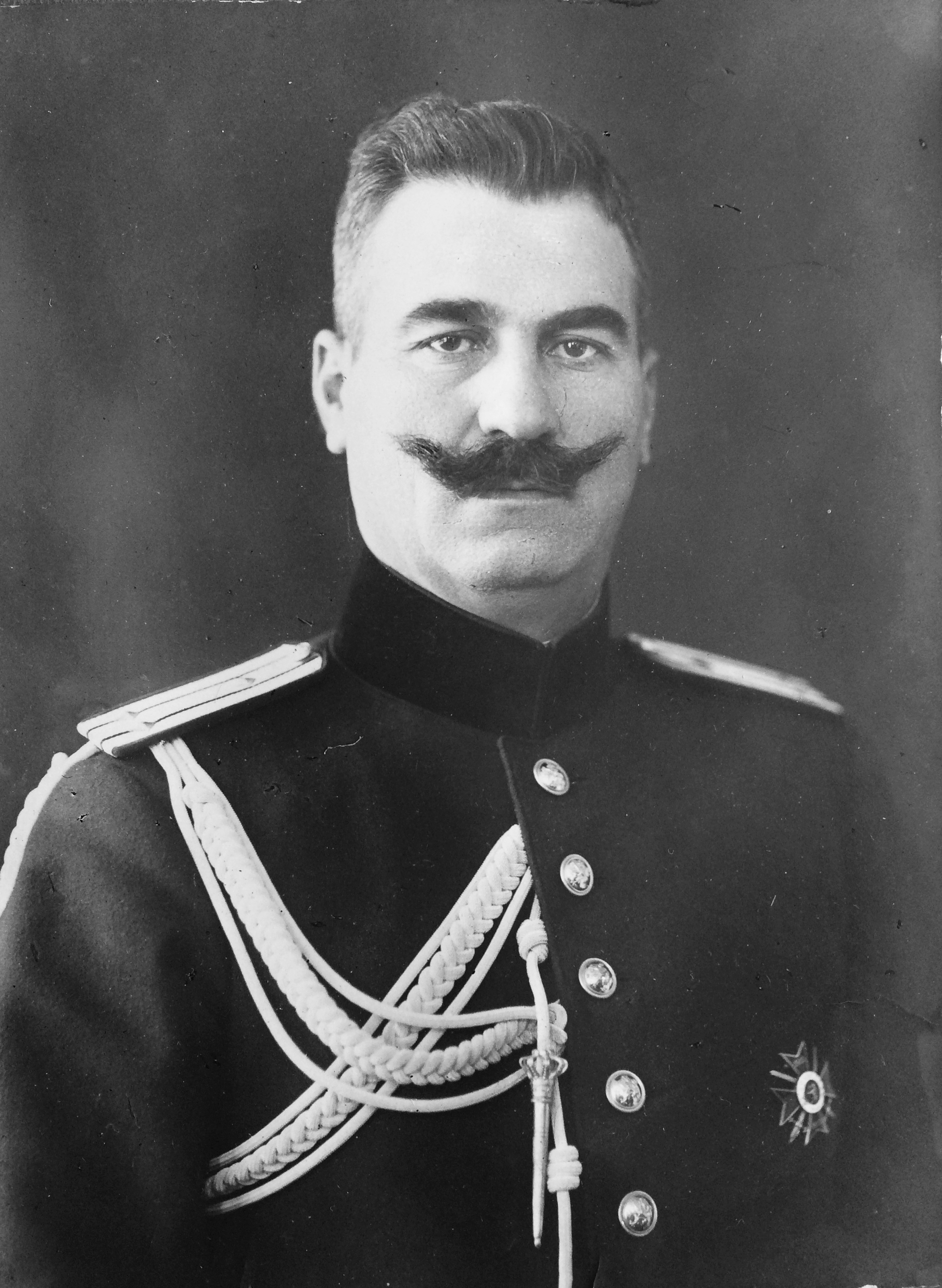 Major General Nikola Nedev - Bulgarian war activist, major-general, military historian and politician. Minister of Interior and Public Health in the government of George Kiosseivanov.